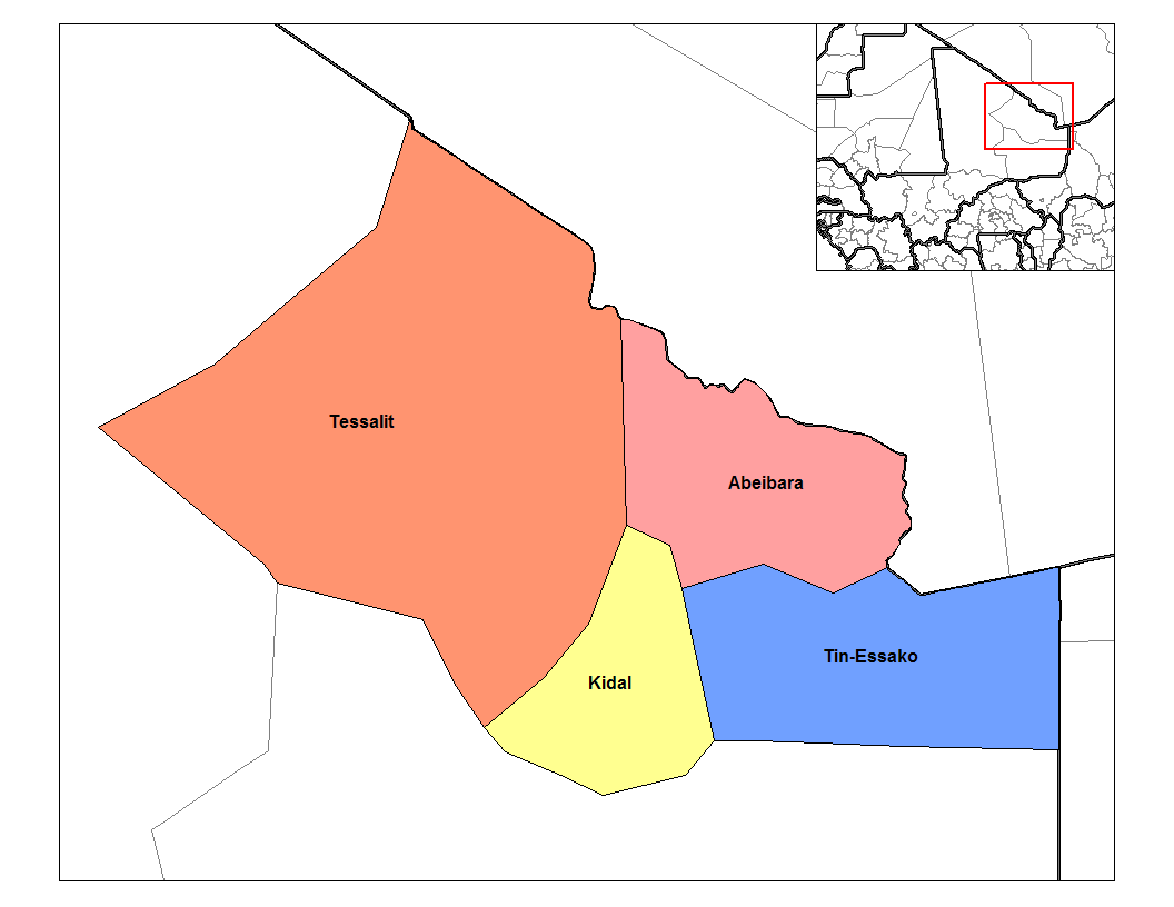 Map of the cercles of Kidal region in Mali. Created using MapInfo Professional v8.5 and various mapping resources.